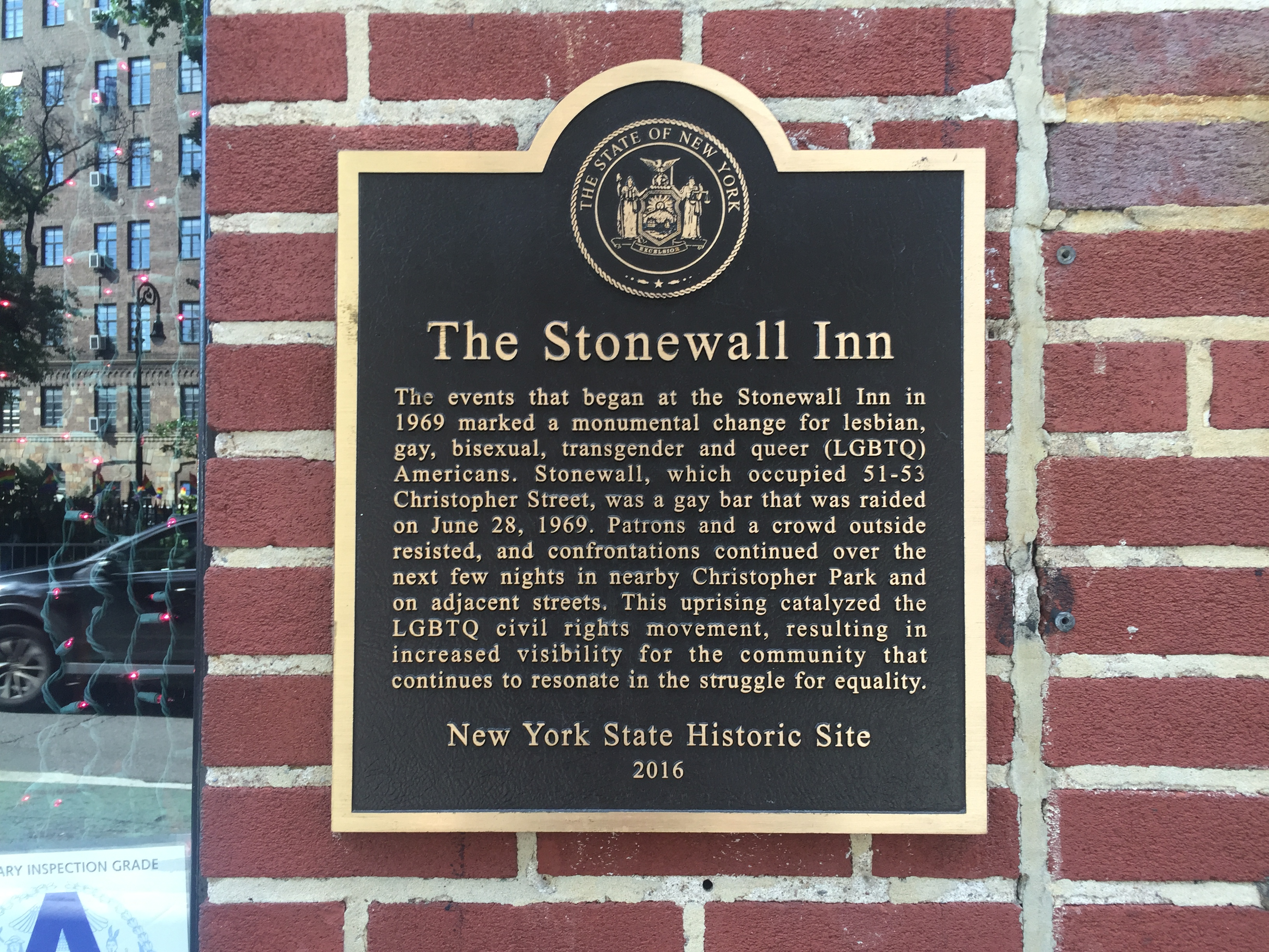 The plaque at the Stonewall Inn.Location: USA, New York CityEvent type: WorldPride 2019Date or year: 2019